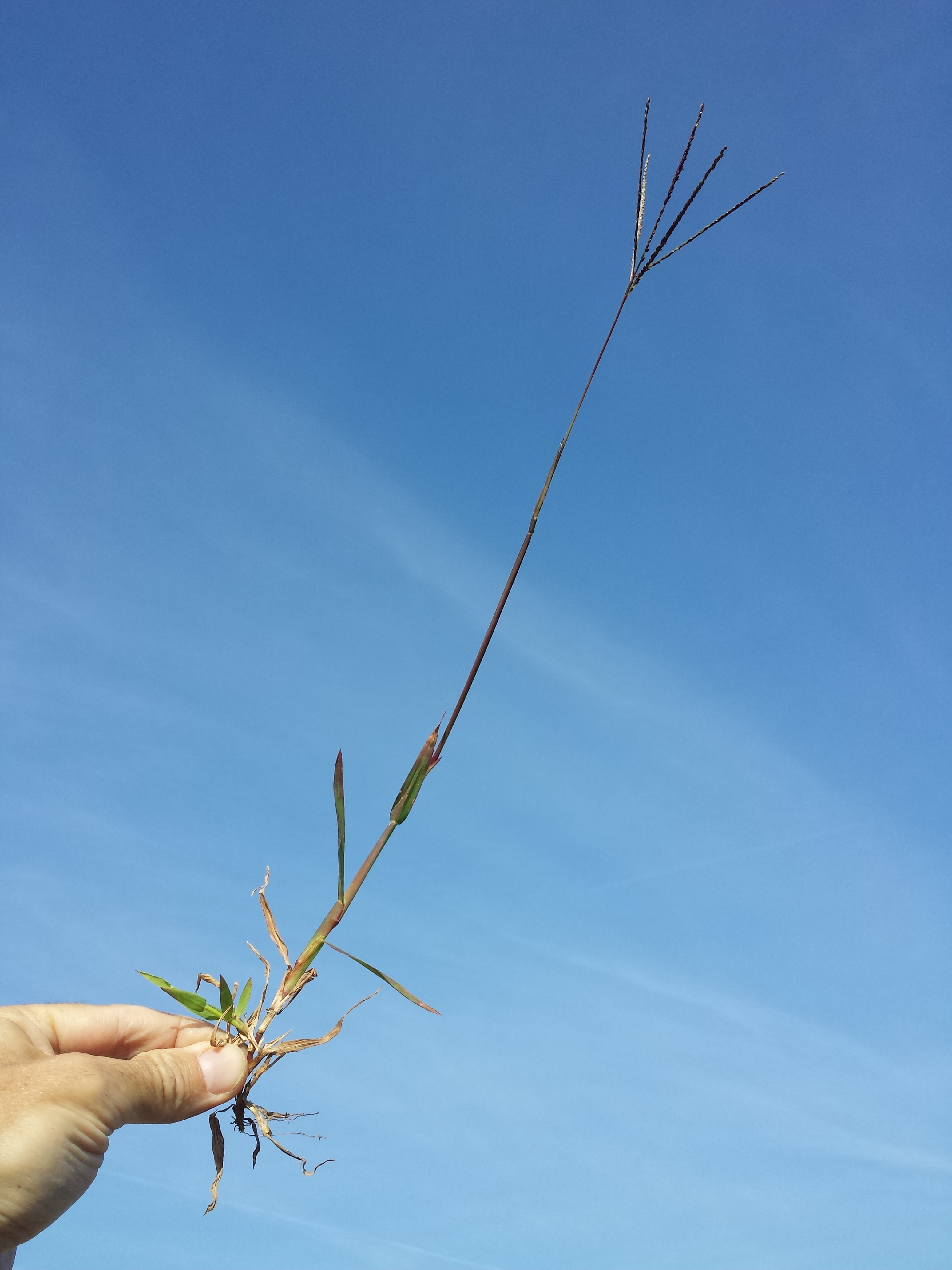 Habitus Taxonym: Digitaria ischaemum ss Fischer et al. EfÖLS 2008 ISBN 978-3-85474-187-9 Location: Hatzenbach, district Korneuburg, Lower Austria - 190 m a.s.l. Habitat: gap in street surface